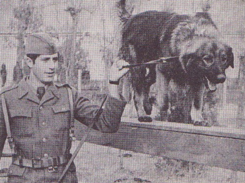 Training of Sarplaninac dog in Yugoslav Peoples Army